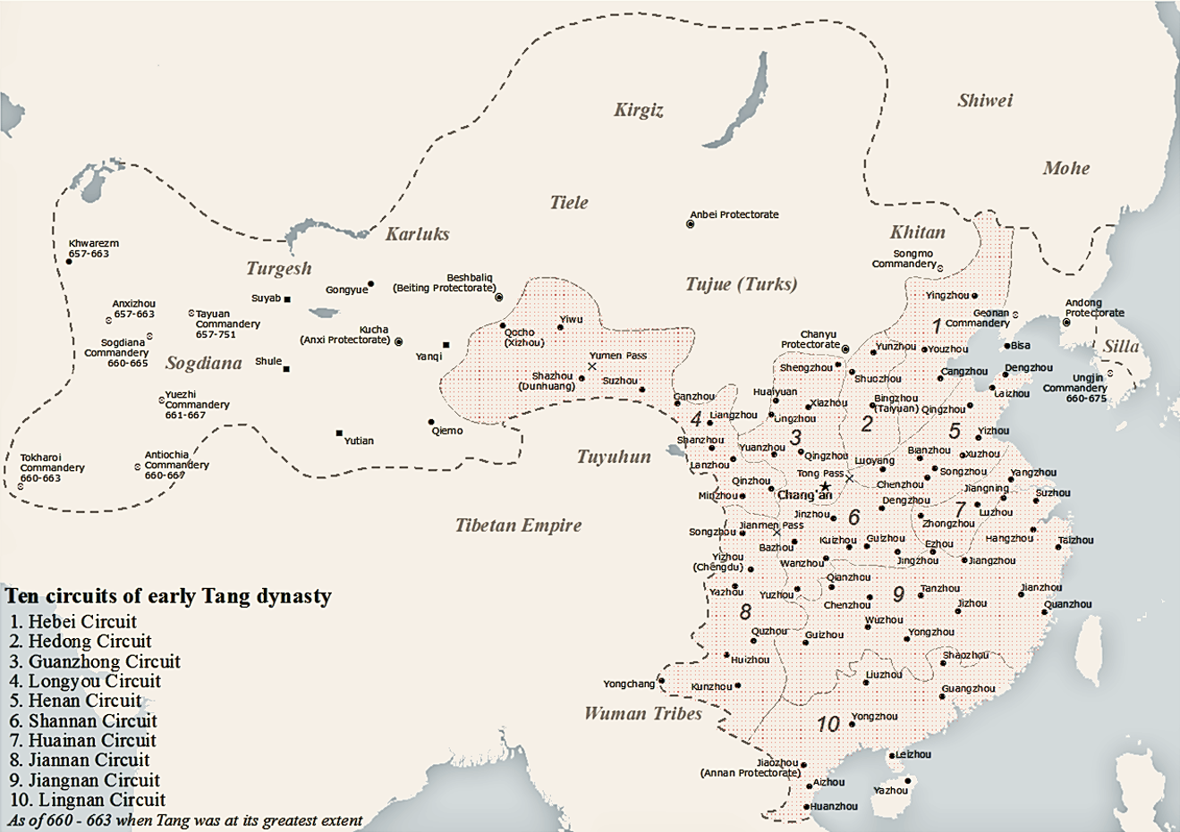 The ten circuits of Tang dynast at its greatest extent (660 - 663 A.D.).